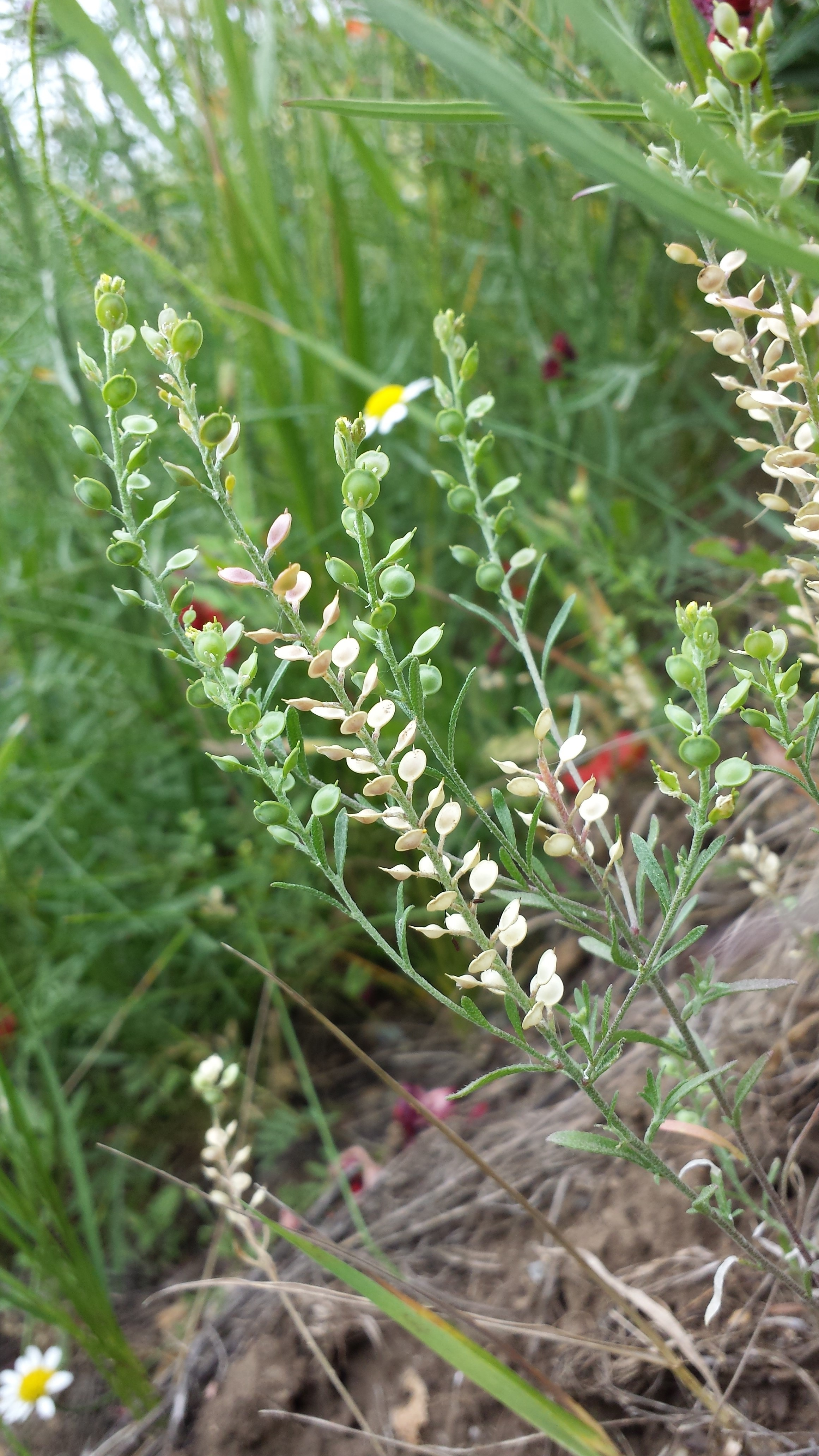 Taxon: Alyssum desertorum (sensu Fischer et al. EfÖLS 2008) Location: Deutsch-Wagram, district Gänserndorf, Lower Austria - ca. 165 m a.s.l. Habitat: railroad embankment